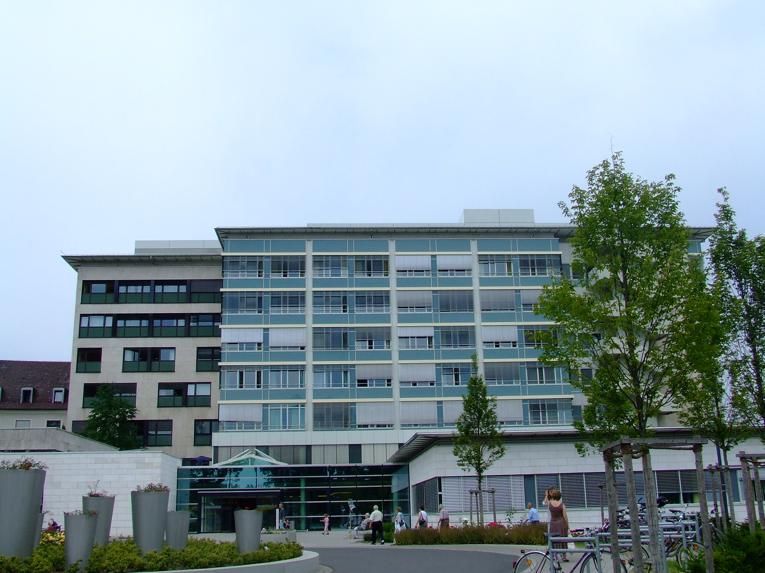 Hospital in Neumarkt in der Oberpfalz